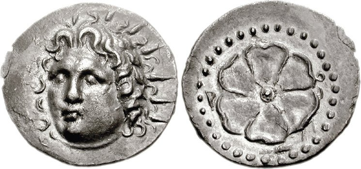 Rhodes, 88/42 BC-AD 14. Silver drachm (3.63 g). Attic standard. Radiate head of Helios facing slightly left / Rose seen from above; grain ear below.